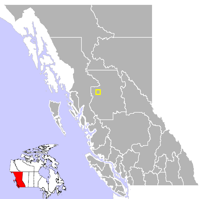 Location of Telkwa, British Columbia